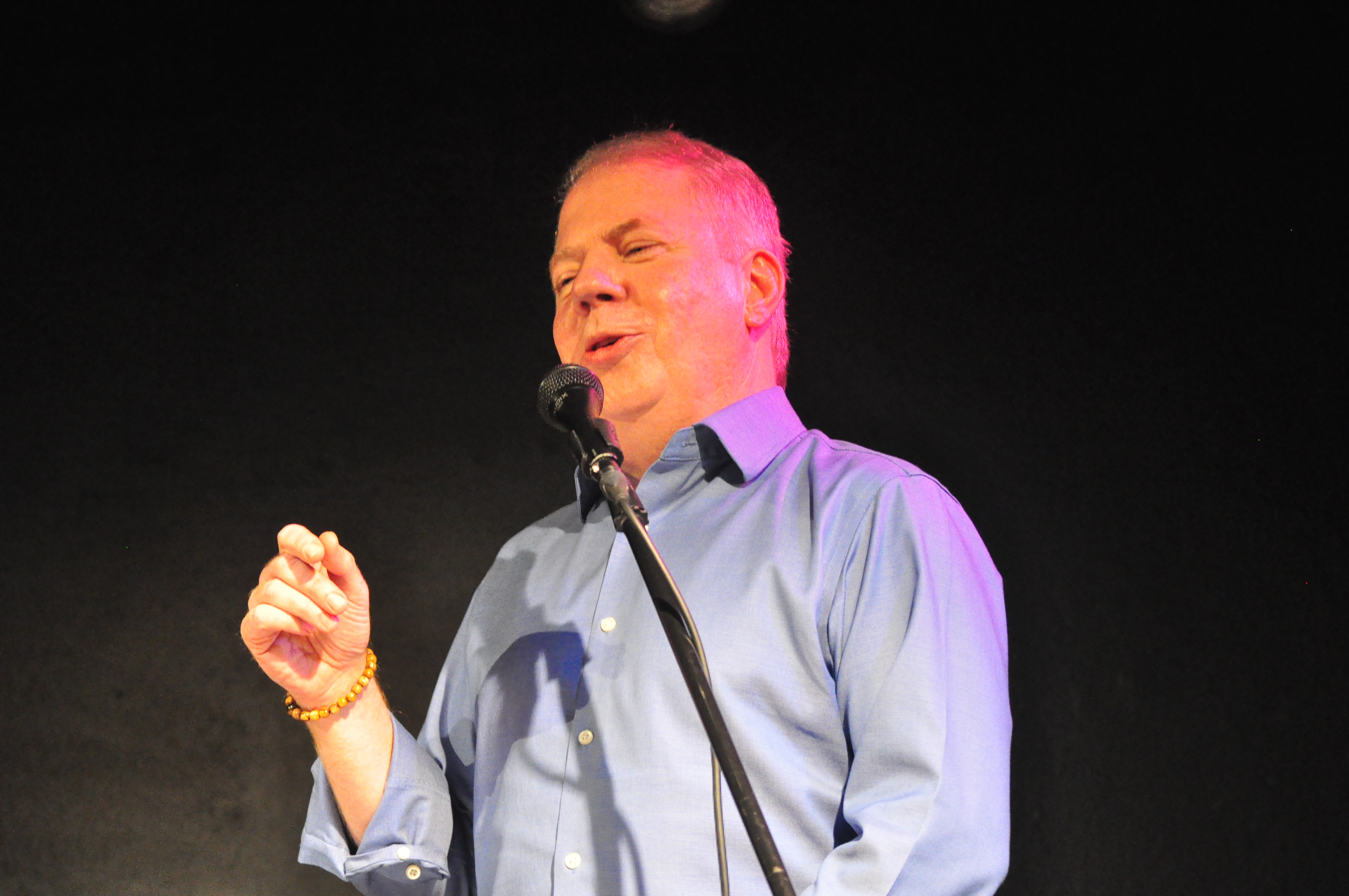 Seattle Mayor Ed Murray "roasting" departing Stranger editor and reporter Dominic Holden (not shown) at the Re-Bar, Seattle, Washington, November 1, 2014. Roasters included prominent city and county officials, past and present Stranger staff, and people from the Seattle theater community.